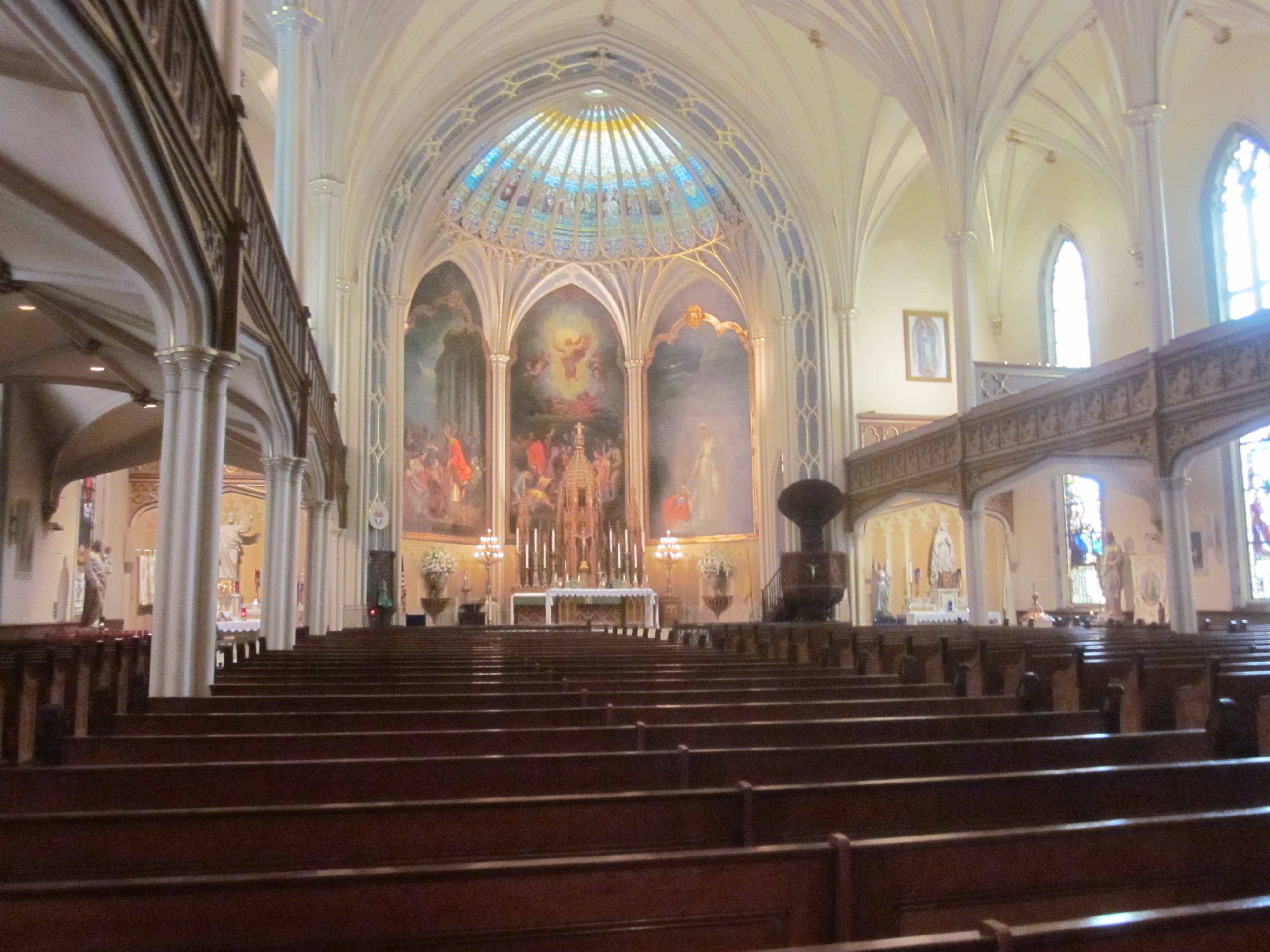 Interior of St. Patrick's Church, New Orleans, Louisiana.